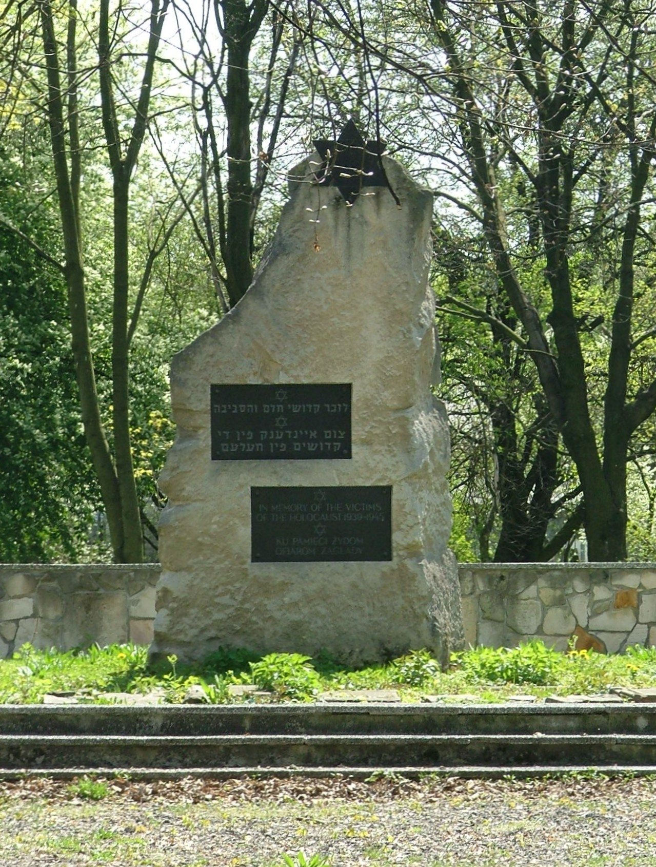 Poland, Chełm, Jewish Cemetery